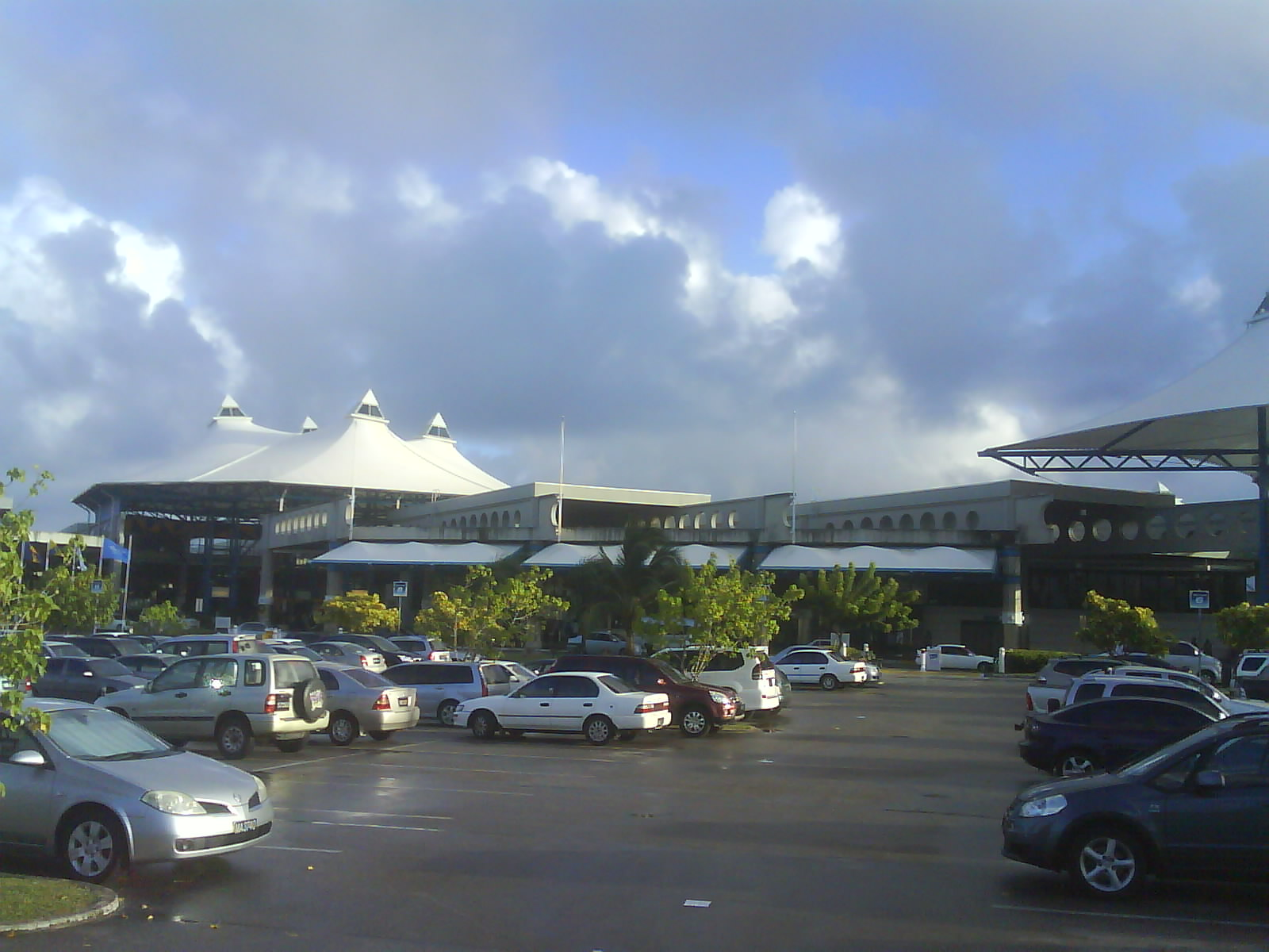 The City of Bridgetown's Grantley Adams International Airport at Seawell. (Located in the parish of Christ Church.) The departures terminal.